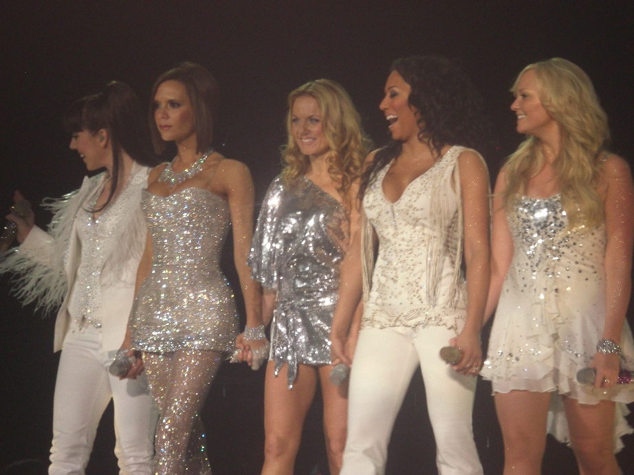 Spice Girls live at the O2 Arena on January 2nd, 2008. Picture taken by Ole Stian Madsen